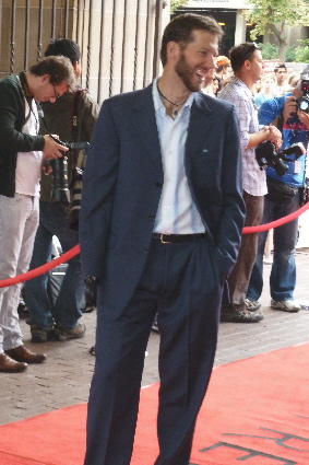 Aron Ralston at the premiere of 127 Hours, Toronto Film Festival 2010.